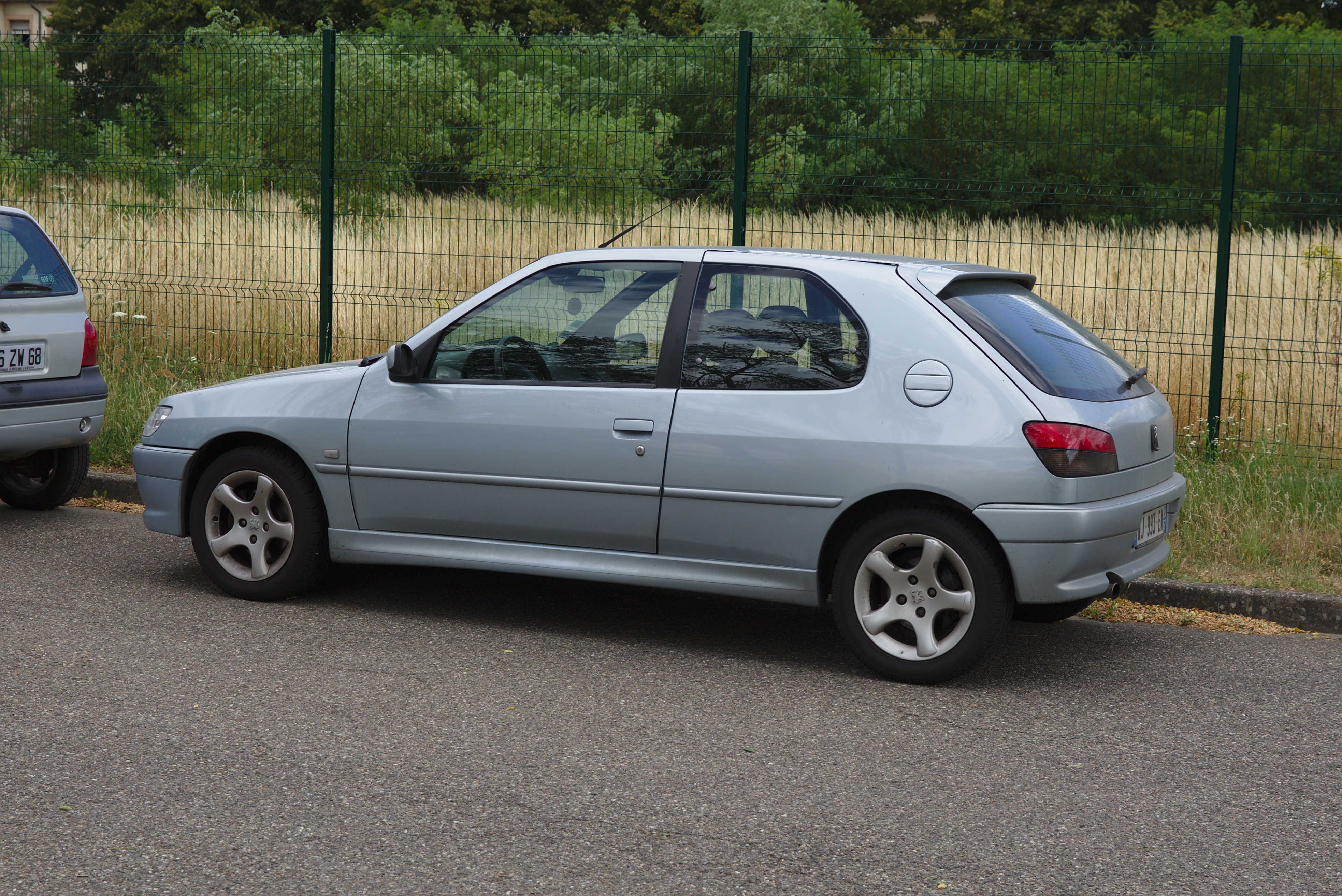 3-door Peugeot 306